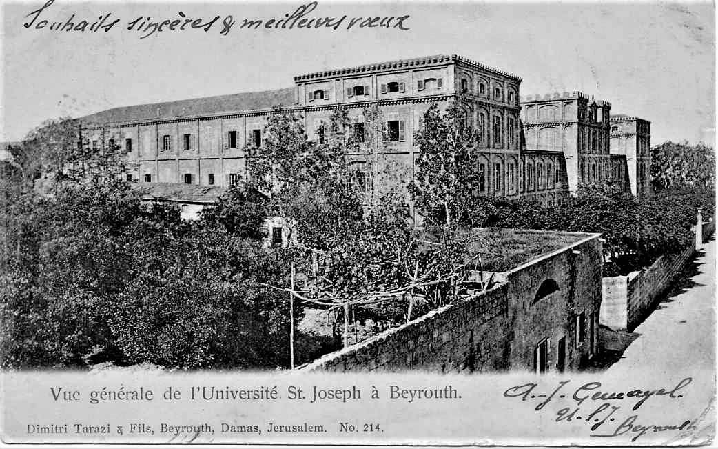 Saint Joseph University of Beirut